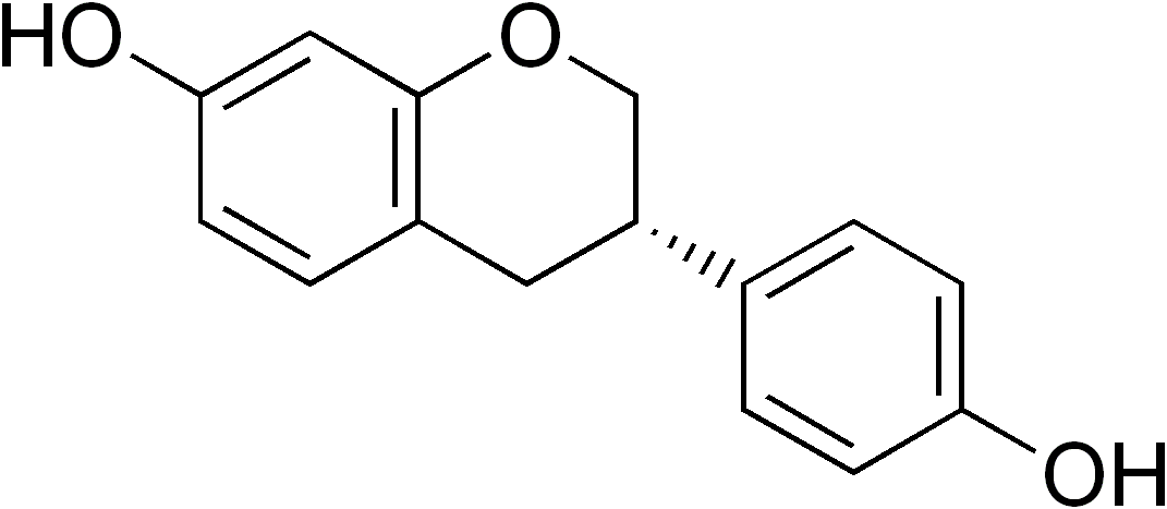 chemical structure of equol